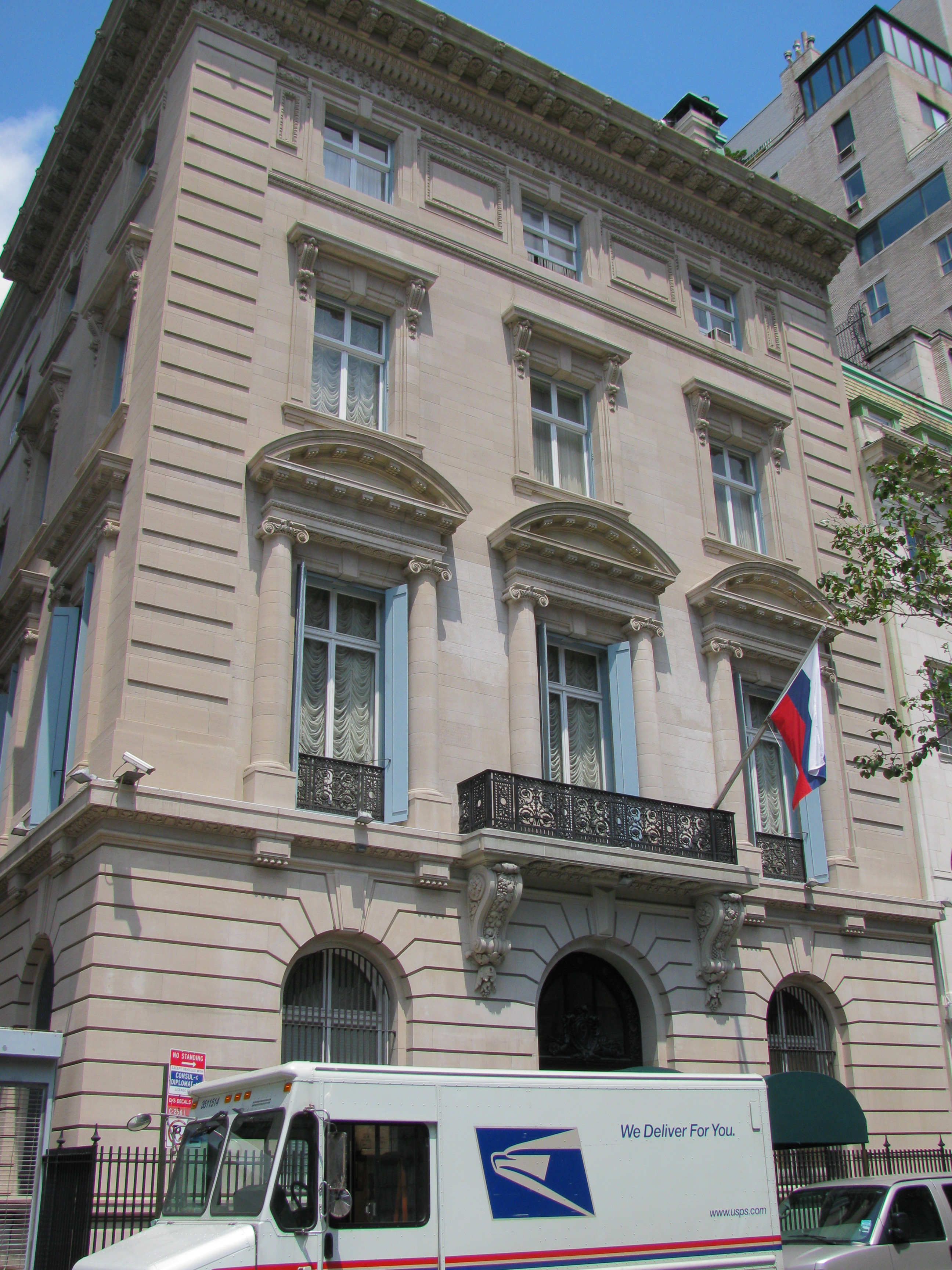 Consulate-General of the Russian Federation in New York City.